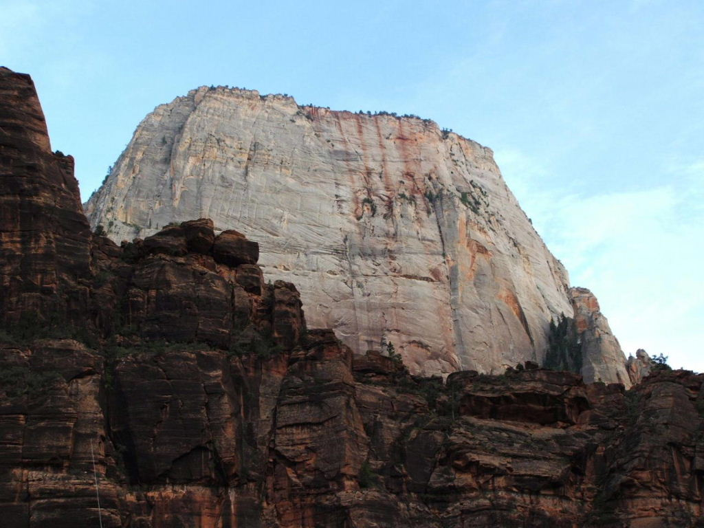 The Great White Throne in Zion National Park. Created by me, released to the public domain.